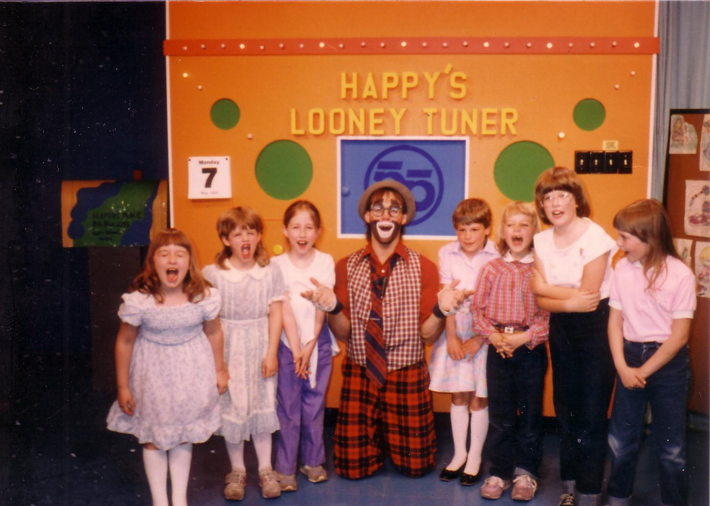 Children from the audience of Happy's Place, with Happy, May 7, 1984. Indiana, USA.